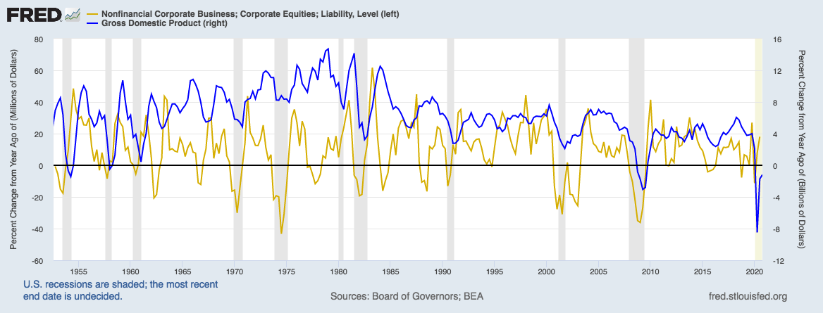 Board of Governors of the Federal Reserve System (US), Nonfinancial corporate business; corporate equities; liability, Level [NCBEILQ027S], retrieved from FRED, Federal Reserve Bank of St. Louis July 21, 2015. US. Bureau of Economic Analysis, Gross Domestic Product [GDP], retrieved from FRED, Federal Reserve Bank of St. Louis July 21, 2015.